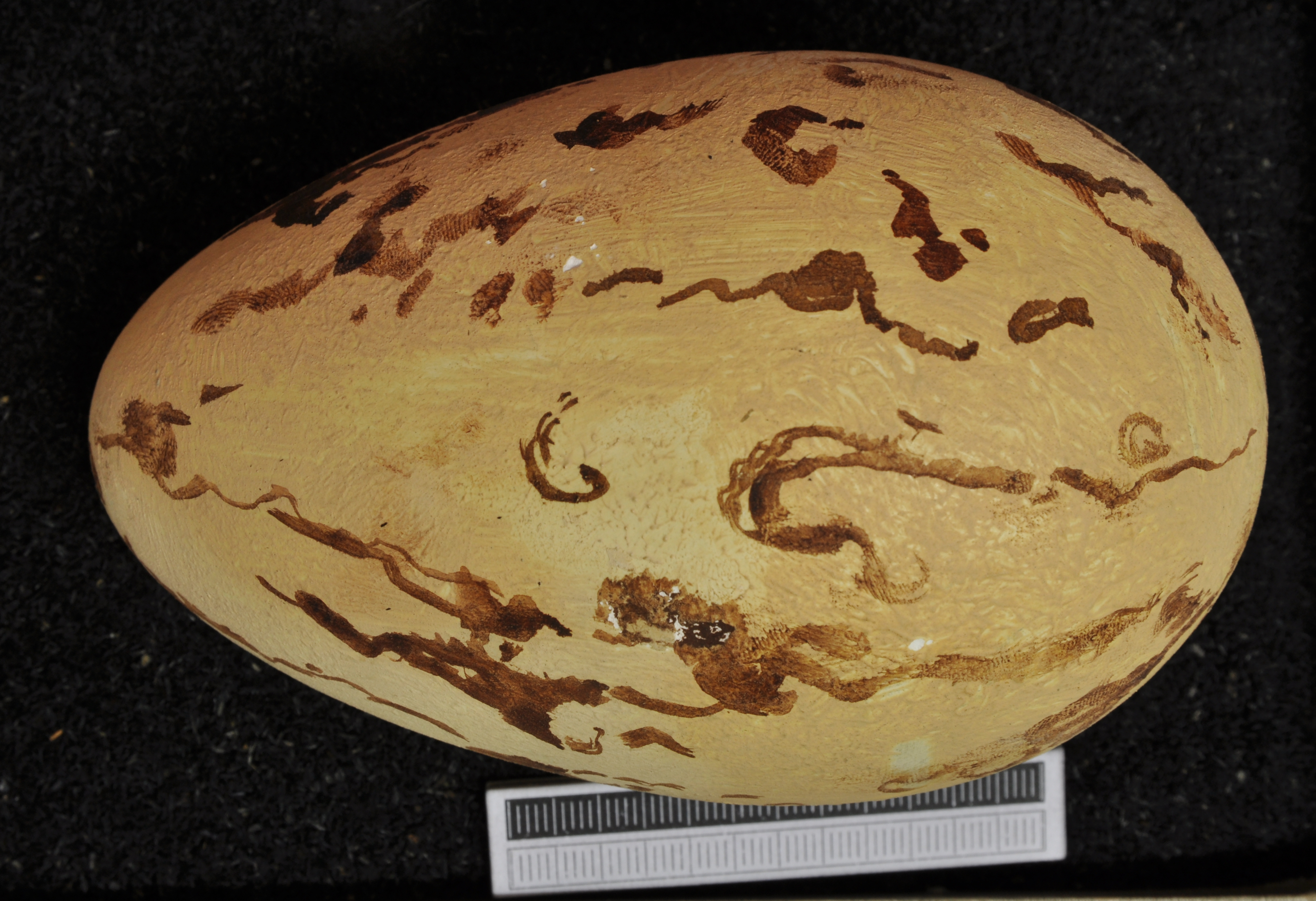 Great auk Pinguinus impennis , cast egg, Coll. Museum Wiesbaden, original Museum Oldenburg